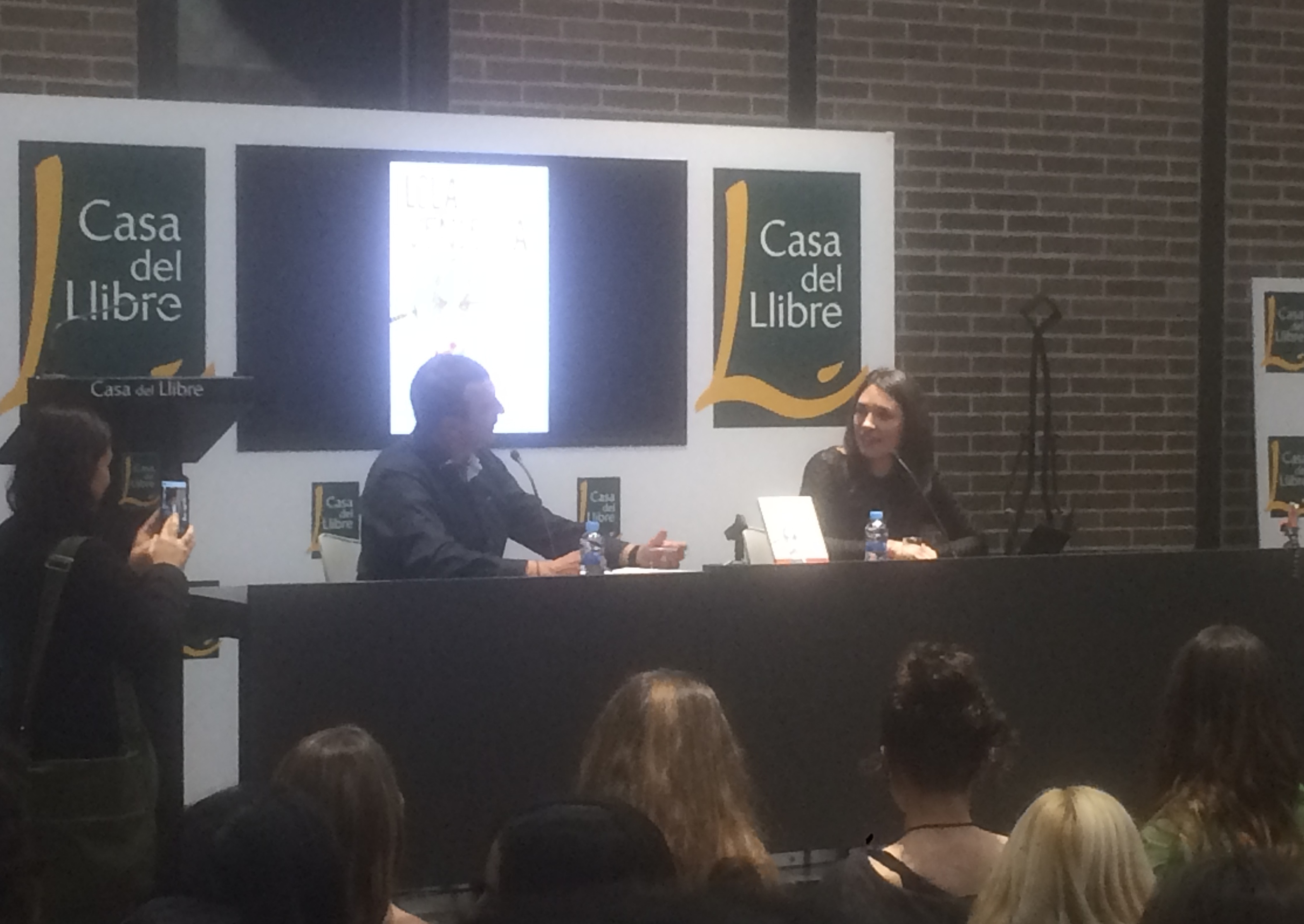 Presentation of the book "Más vale Lola que mal acompañada" (Translated into "Better Lola than in bad company", main protagonist being fictional character Lola Vendetta) by the Catalan Illustrator Raquel Riba Rosy on March the 7th 2017 in the book shop "Casa del Libro" in Rambla Catalunya (Barcelona).